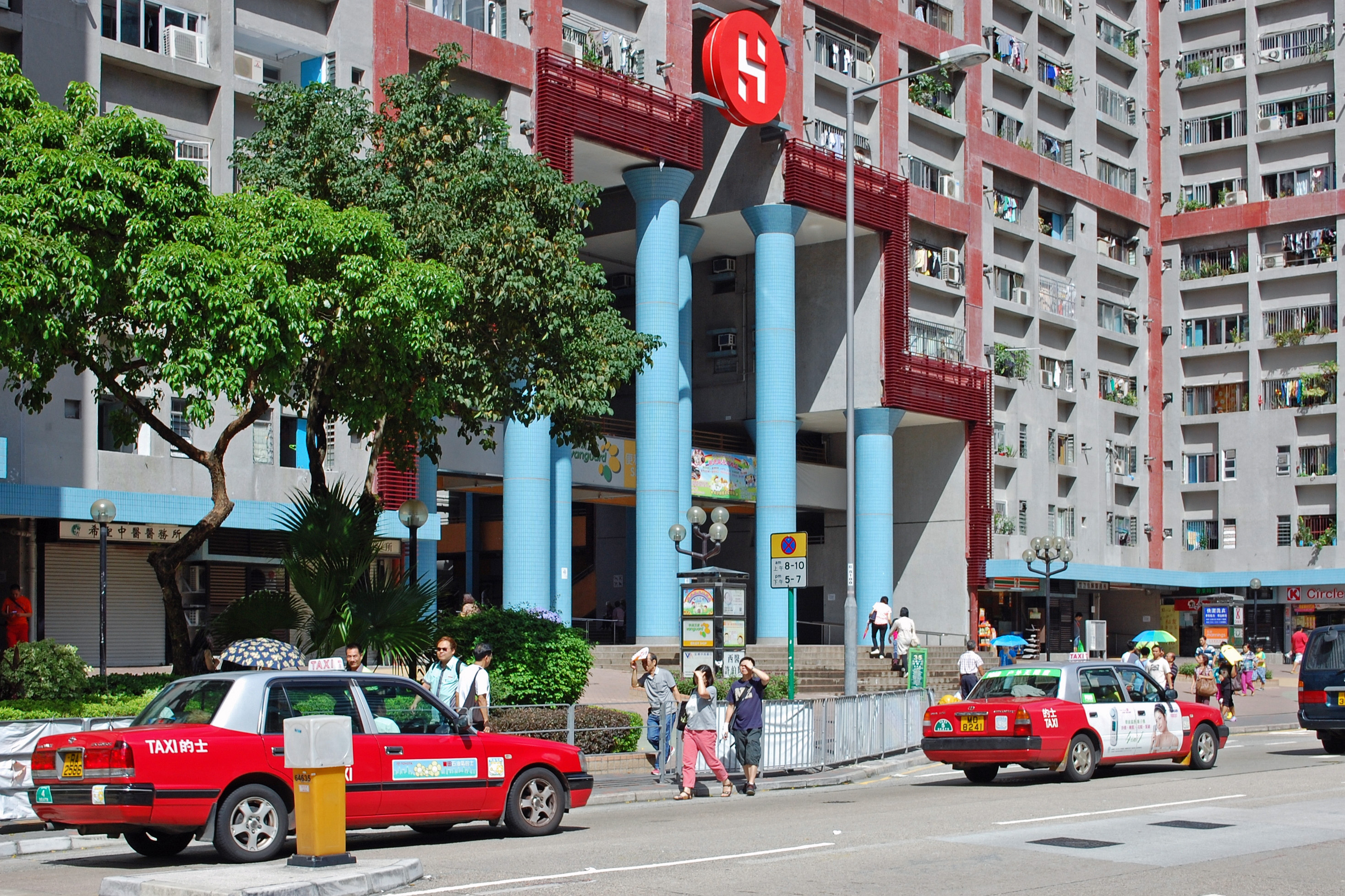 Lotus Tower main housing estate entrance, from Ngau Tau Kok Road.中文（香港）: 花園大廈玉蓮臺